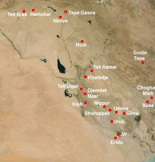 Map of Mesopotamia during the Uruk period (4000-2900 BC)